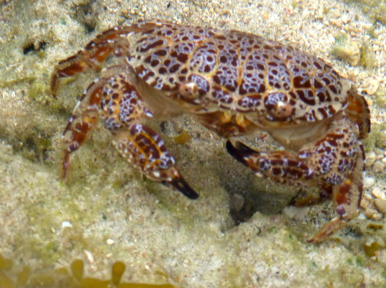 Zosimus aeneus, An Atauro crab